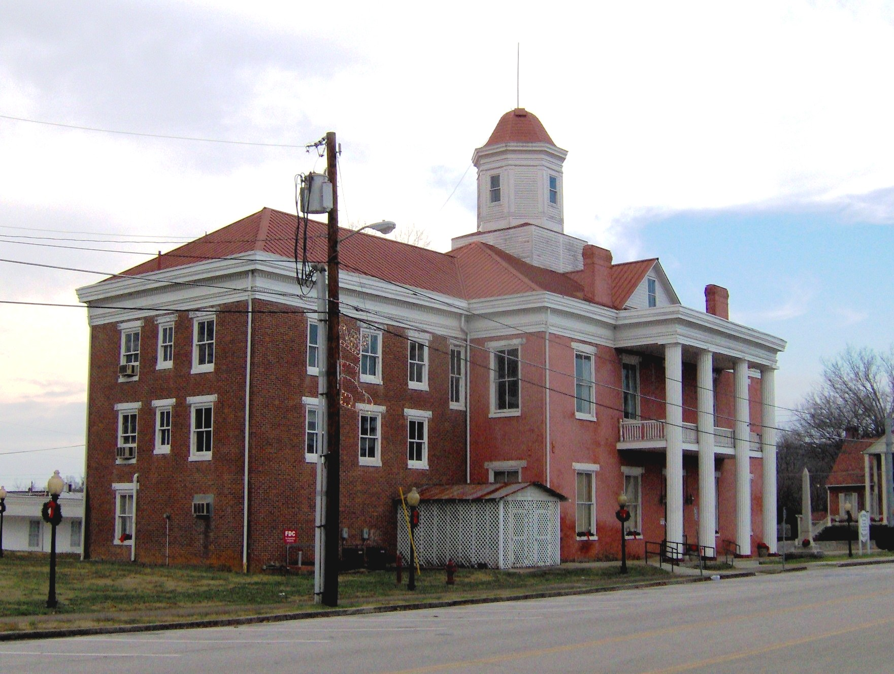 The Old Roane County Courthouse in Kingston, Tennessee, in the southeastern United States. The courthouse was built in 1854-1855 by architect Augustus Fisher, and operated as the county's courthouse until 1974. The courthouse is now a museum operated by the Roane County Heritage Commission. The courthouse was added to the U.S. National Register of Historic Places in 1971.